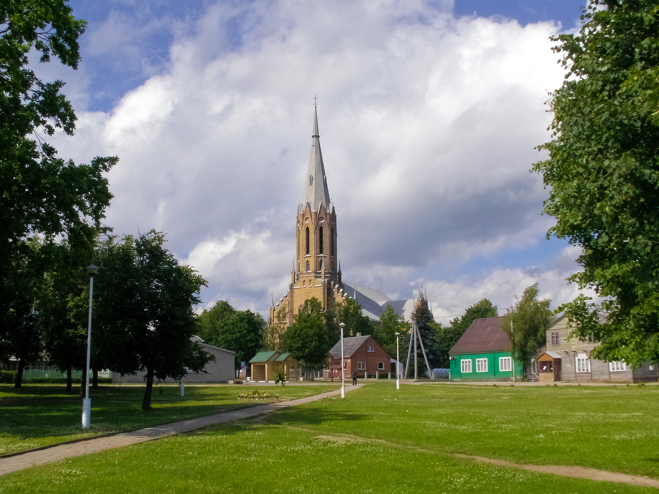 Lygumai, church, Pakruojis district